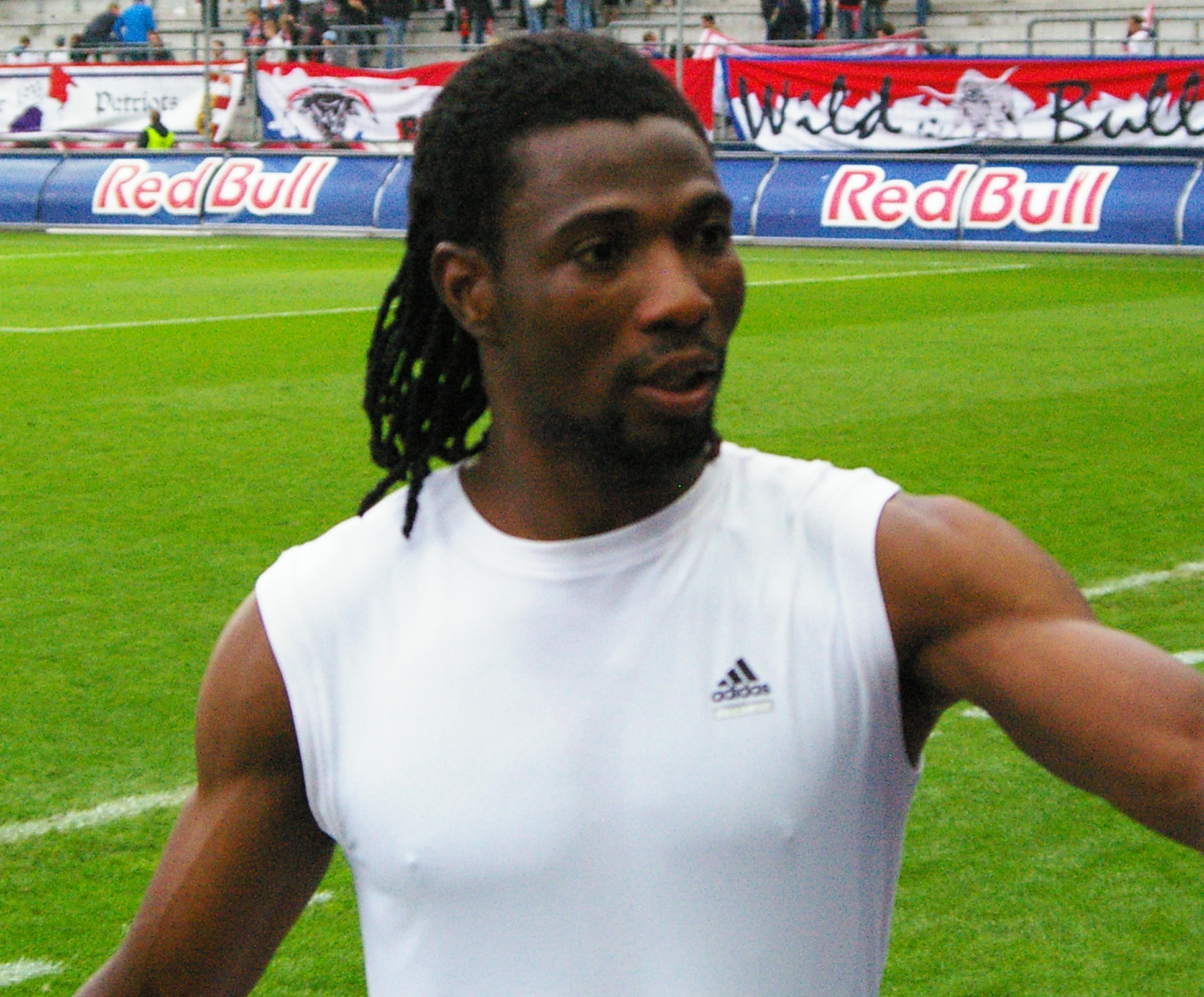 league match 2012